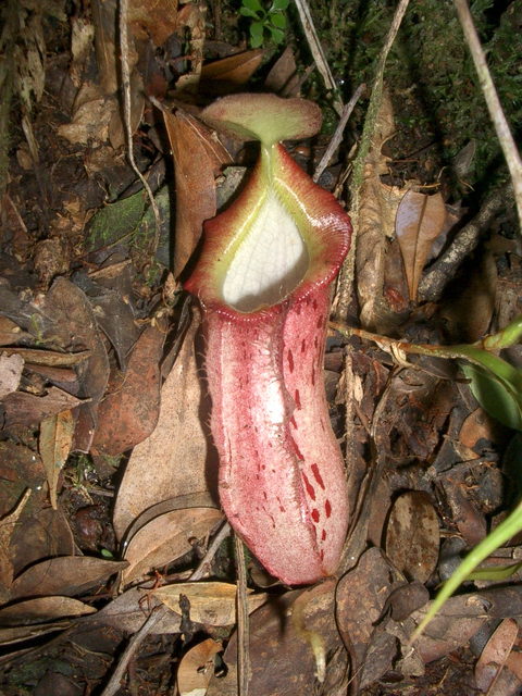 Nepenthes rhombicaulis from Simanuk-manuk, Sumatra.